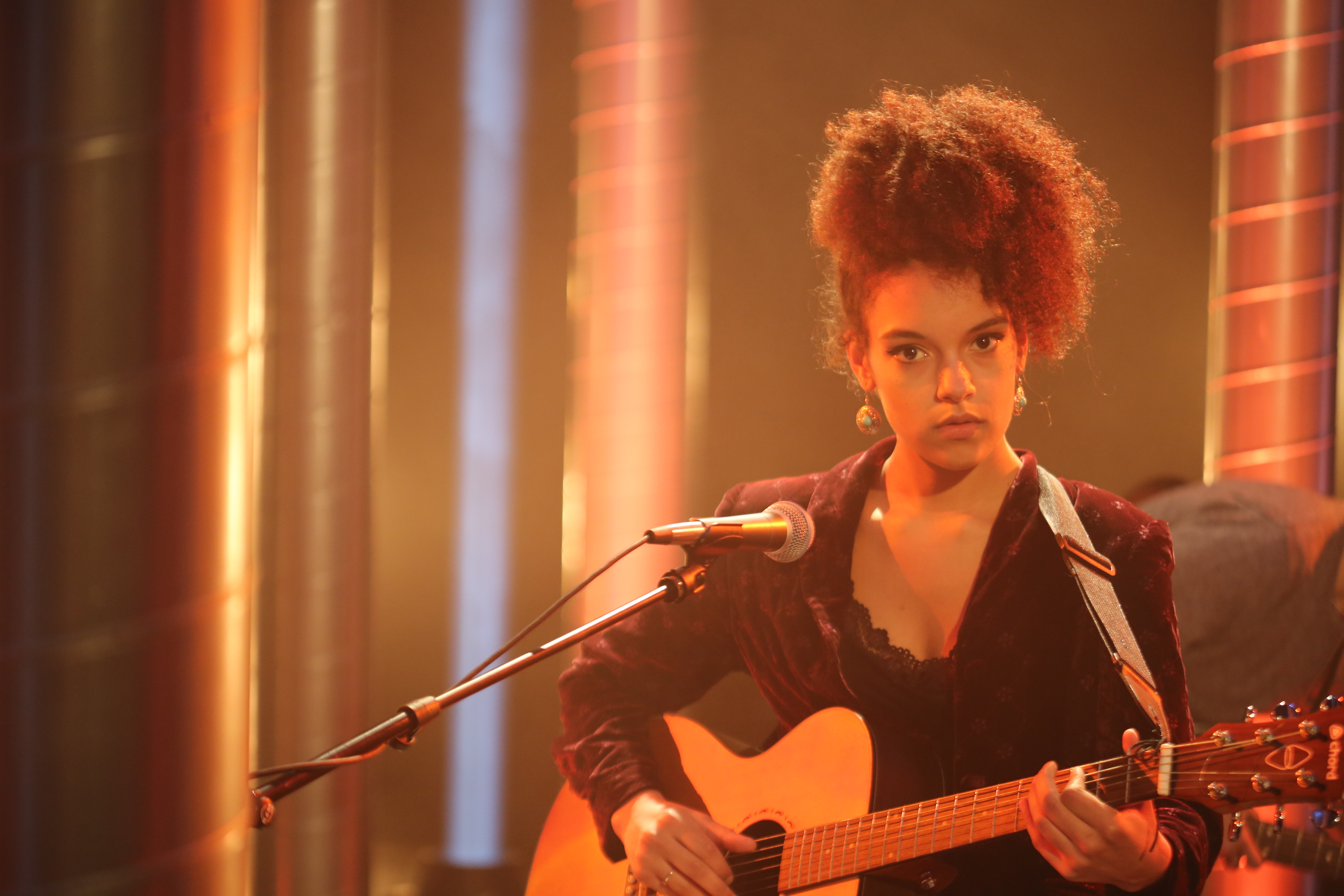 Kizzy Crawford. A Welsh band.